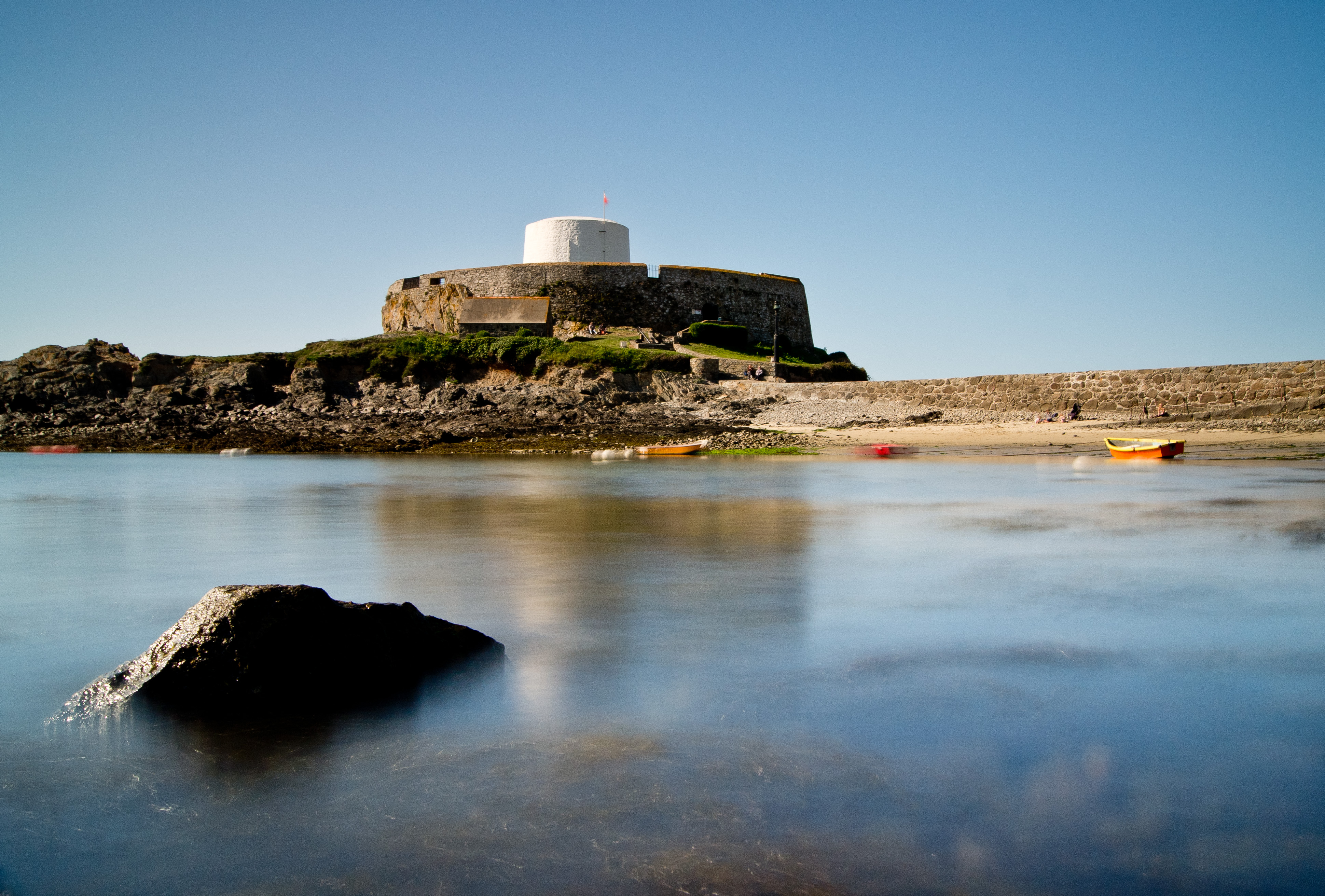 Fort Grey, colloquially known as the "cup and saucer", is a Martello tower located on a rock in Rocquaine Bay on the west coast of Guernsey. Built as a defence by the British in the 19th century, it has been adapted for other uses. It now operates as a local shipwreck museum, housing a number of salvaged artifacts from famous wrecks, including the MV Prosperity and Elwood Mead. The French called the rock upon which the tower was built the Chateau de Rocquaine (Castle of Rocquaine). It was said to be the site of local witches' Sabbaths at one time.